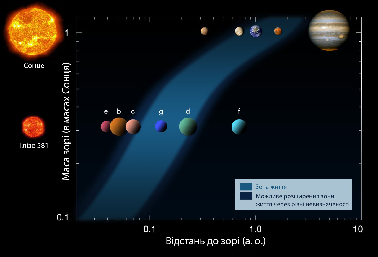 Planetary habitable zones of the Solar System and the Gliese 581 system compared; updated with the 2010 discovery of f and g